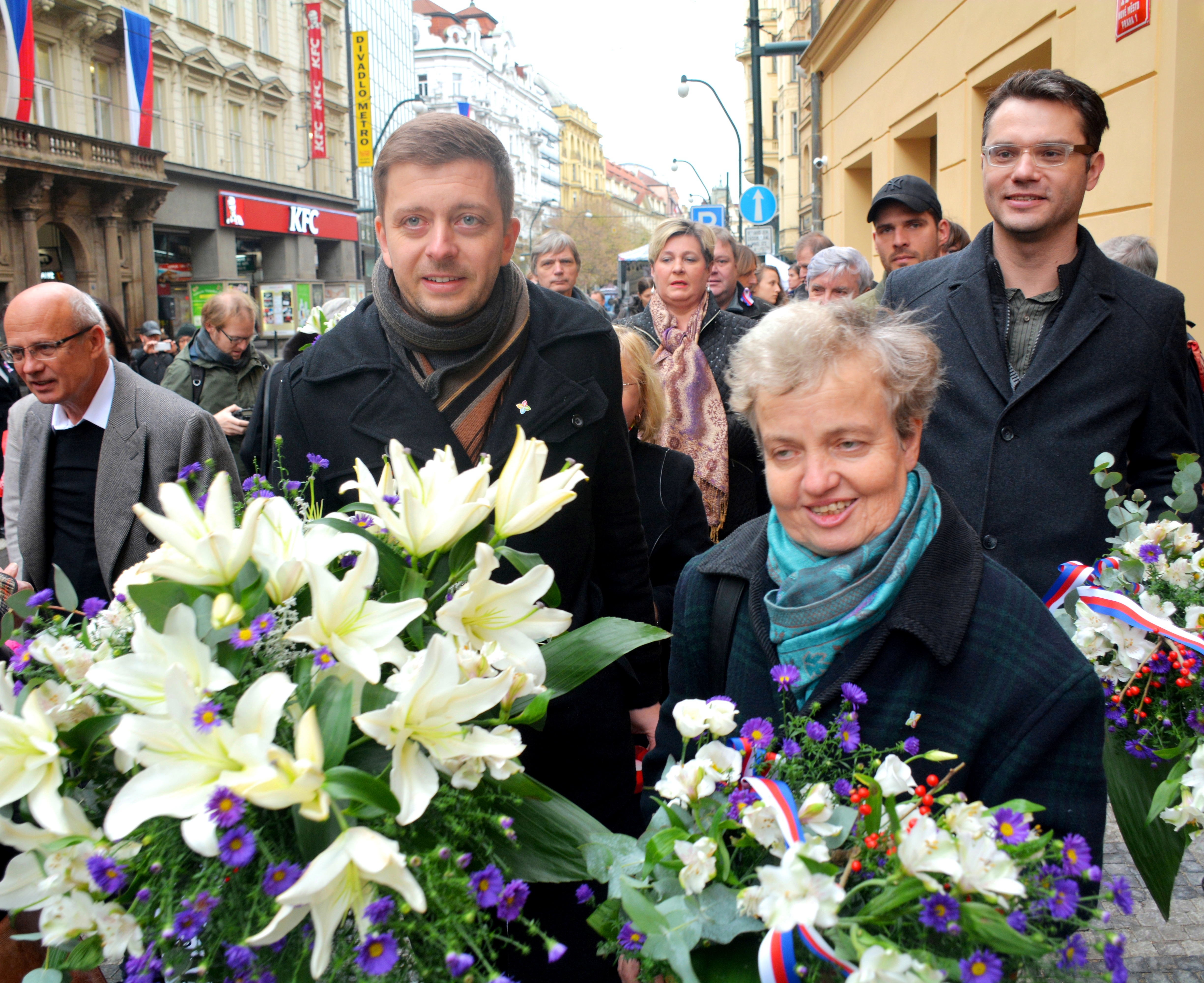 Dana Drábová, Vít Rakušan and Michal Horáček